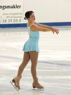 Emily Naphtal during her free skate at the 2004 Junior Grand Prix event in Germany